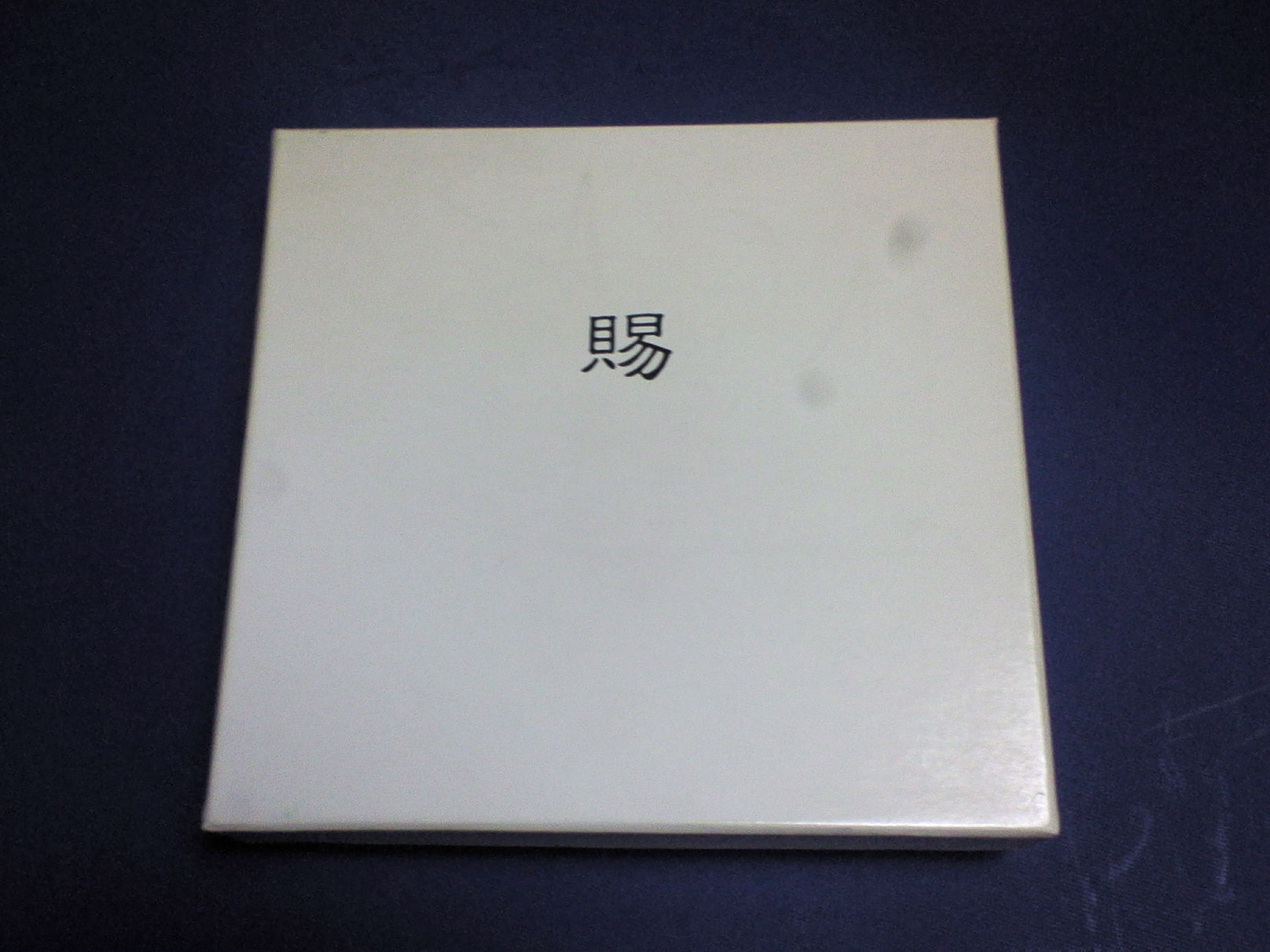 Japanese Imperial Tobacco ./Box